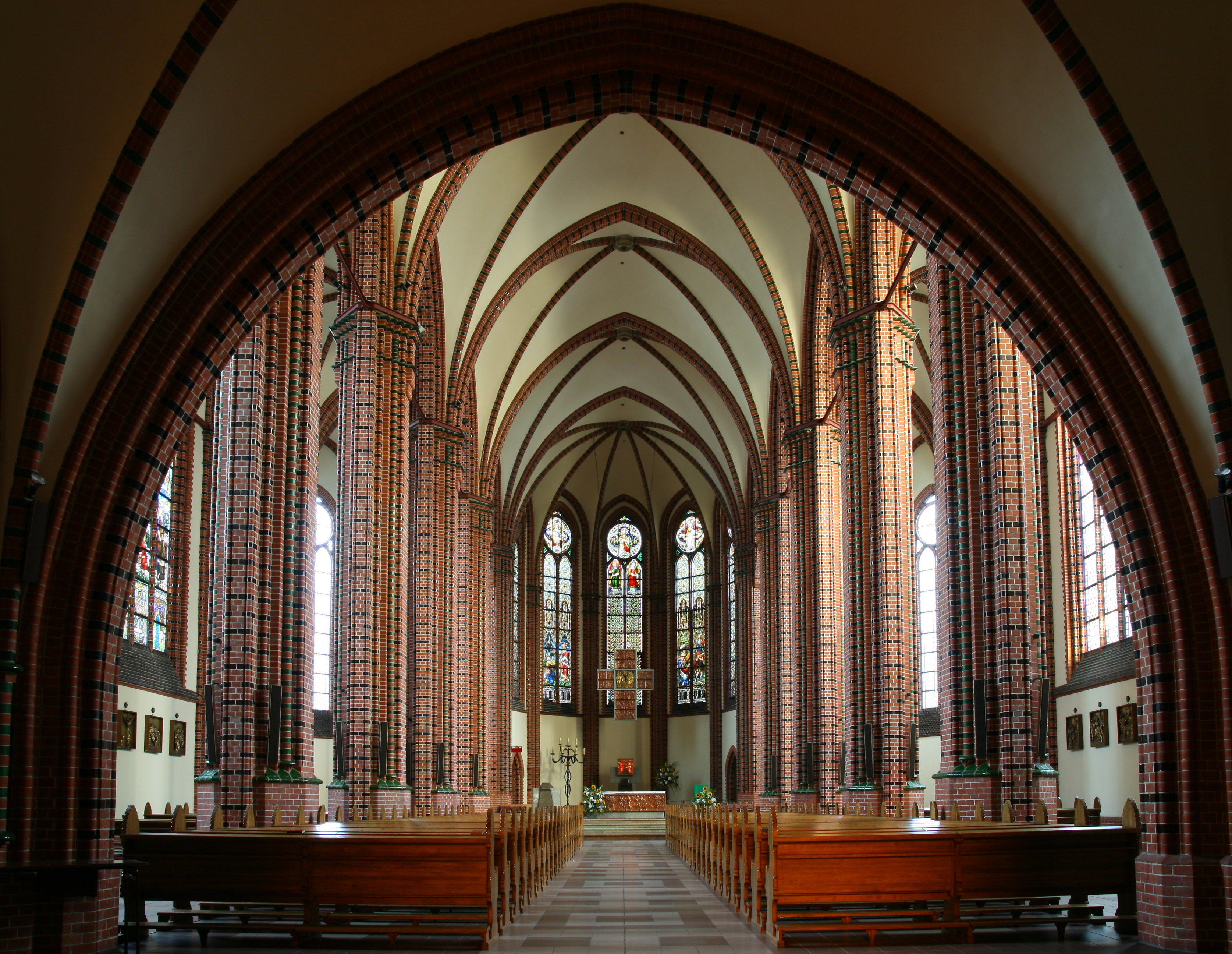 Church of SS. Peter and Paul in Katowice (Poland).